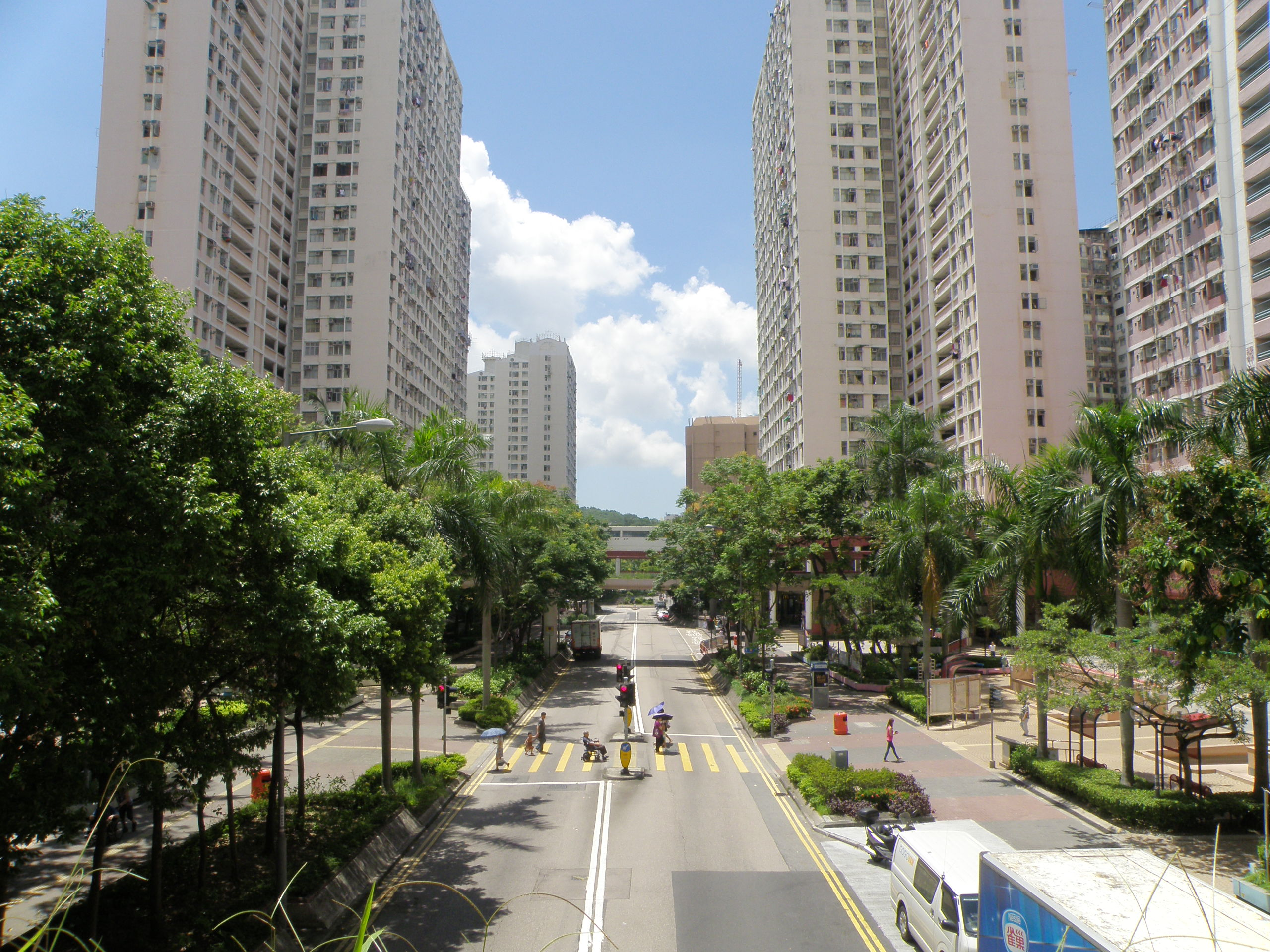 Tsui Ping Road in Kwun Tong, Hong Kong.